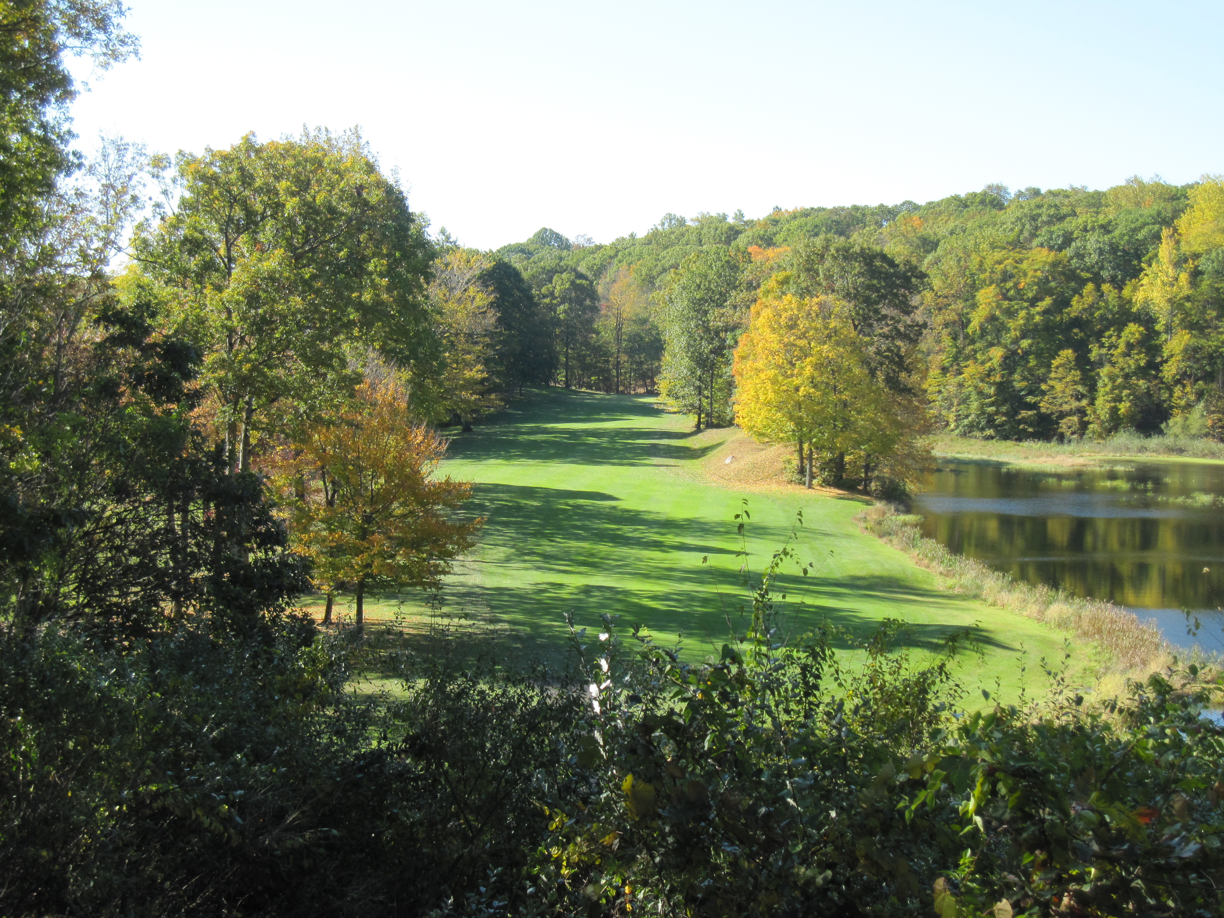 This is a picture from the Ridgefield Golf Course fifteenth hole. The picture is taken from the men's tee box